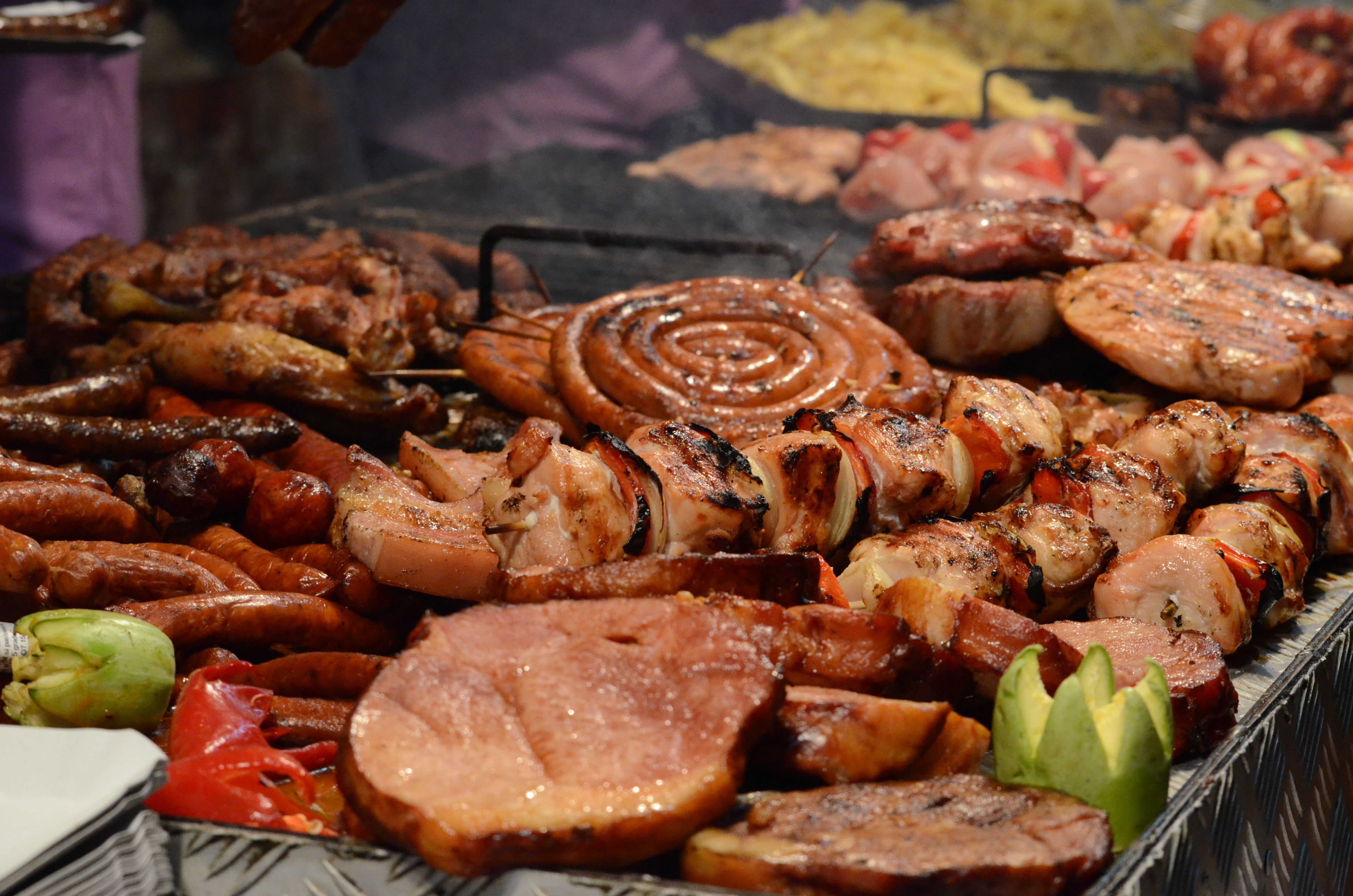 Sausages and grilled pork, at Autumn Festival, Vălenii de Munte, 2 nov 2013